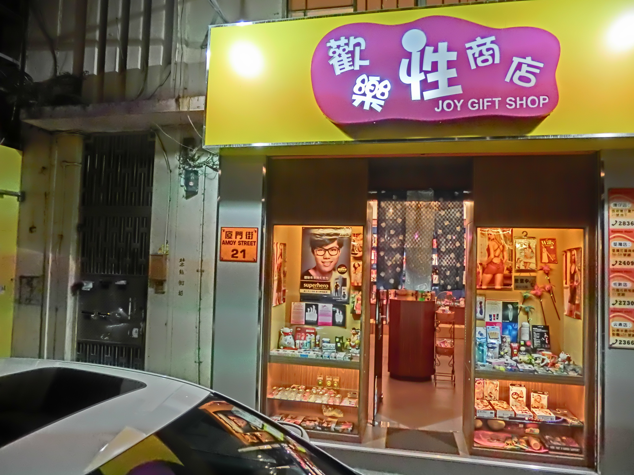 Night in Amoy Street, Hong Kong